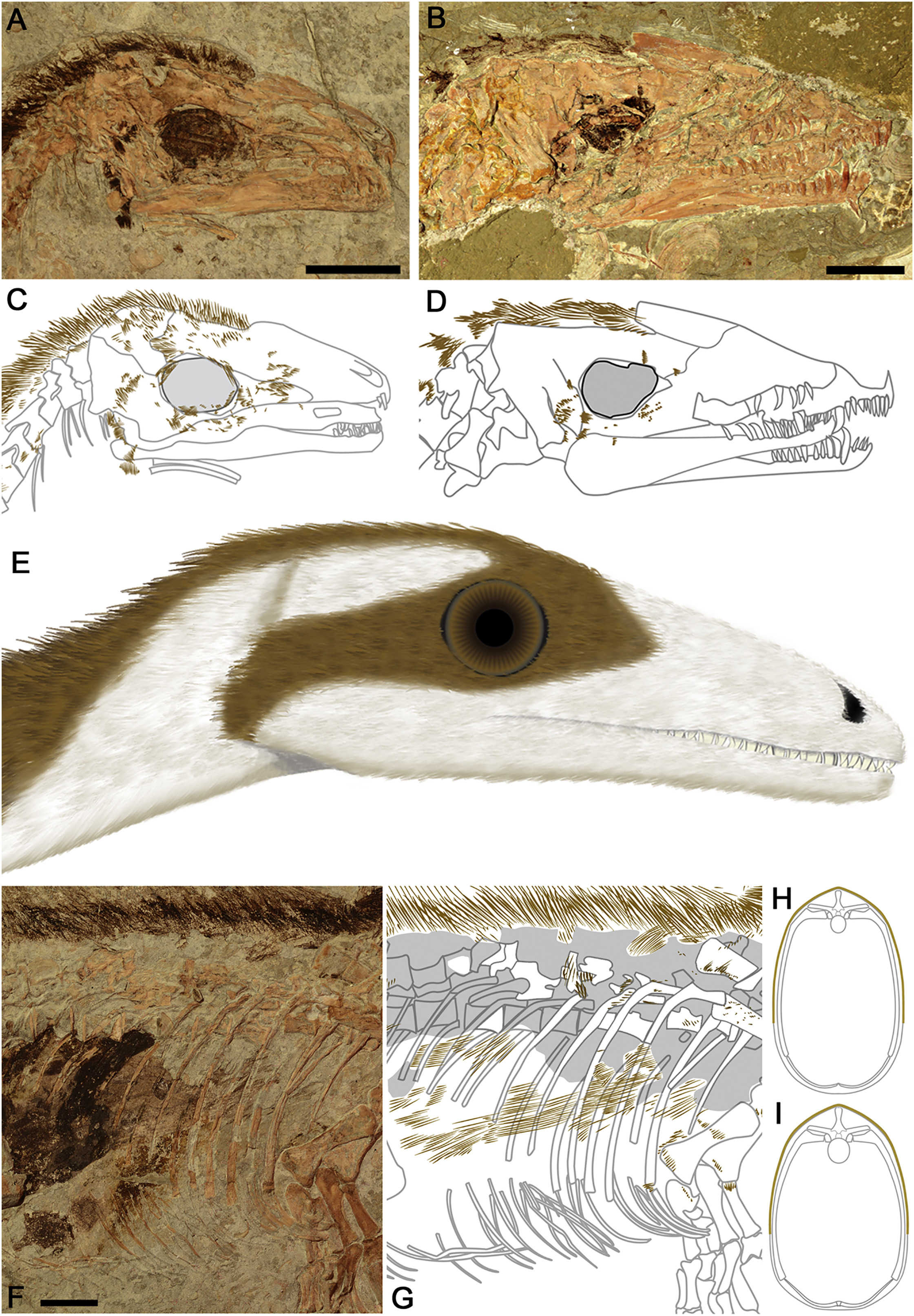 Figure 3 Detail of the Pigmented Plumage Distribution across the Face and Abdomen of Sinosauropteryx (A) The skull of NIGP 127586, showing pigmented feathers forming a crest on the top of the head running along the dorsal side of the neck and patches of plumage on the posterioventral margin of the lower jaw and around the eye orbit. The orbit shows abundant pigment, likely from retinal melanin. Pigmented feathers can also be seen anterior to the orbit and in patches joining those around the orbit to the dorsal crest, indicating a stripe of pigment running across the eye. (B) The skull of NIGP 127587, showing a similar pigmented plumage distribution to NIGP127586 but with poorer preservation. (C) Interpretive drawing of the skull of (A) showing the distribution of pigmented feathers. (D) Interpretive drawing of (B). (E) Full reconstruction of the head of Sinosauropteryx based on the distribution of the plumage in the two specimens. This pattern conforms to a “bandit mask,” seen in many modern taxa. (F) The abdomen of NIGP 127586, showing feather filaments running across internal melanized soft tissues. (G) Interpretive drawing of the abdomen of NIGP 127586, showing the ventral extent of feathers (brown) and overlying sediment covering feathers dorsally (gray area). (H) Transverse section of NIGP 127586, showing the proposed ventral extent of pigmented plumage (brown). (I) Transverse section of NIGP 127587, showing the proposed ventral pigmented plumage extent. Scale bars represent 20 mm in (A)–(D) and 10 mm in (F) and (G). Reconstruction and transverse sections are not to scale.